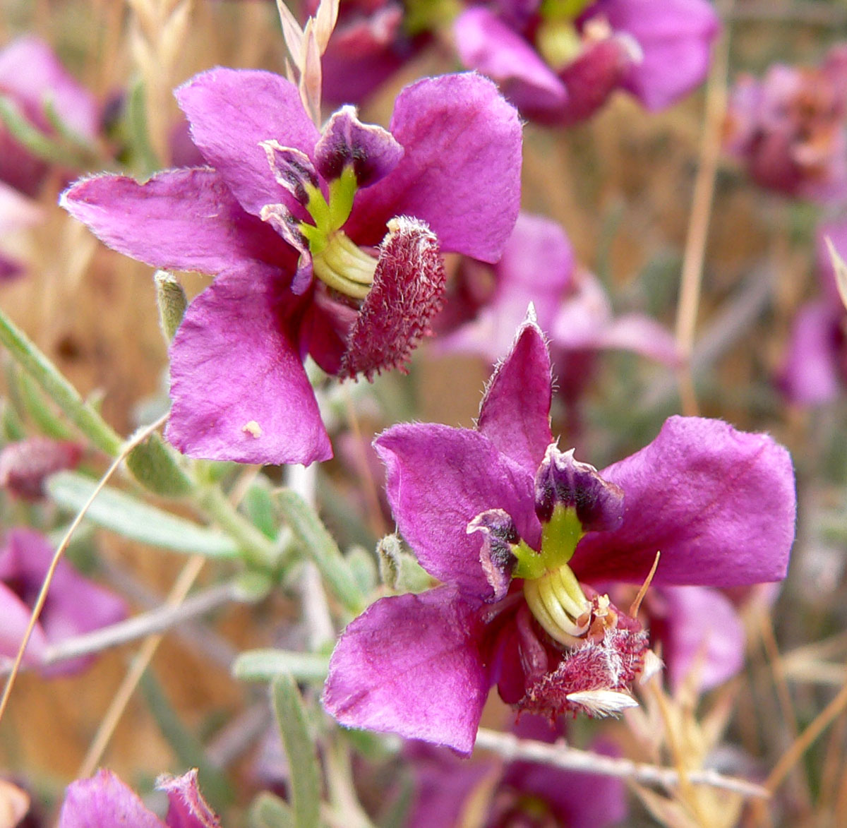 Photo of Krameria erecta in the desert west of Las Vegas, Nevada (just off the end of Tropicana Avenue)